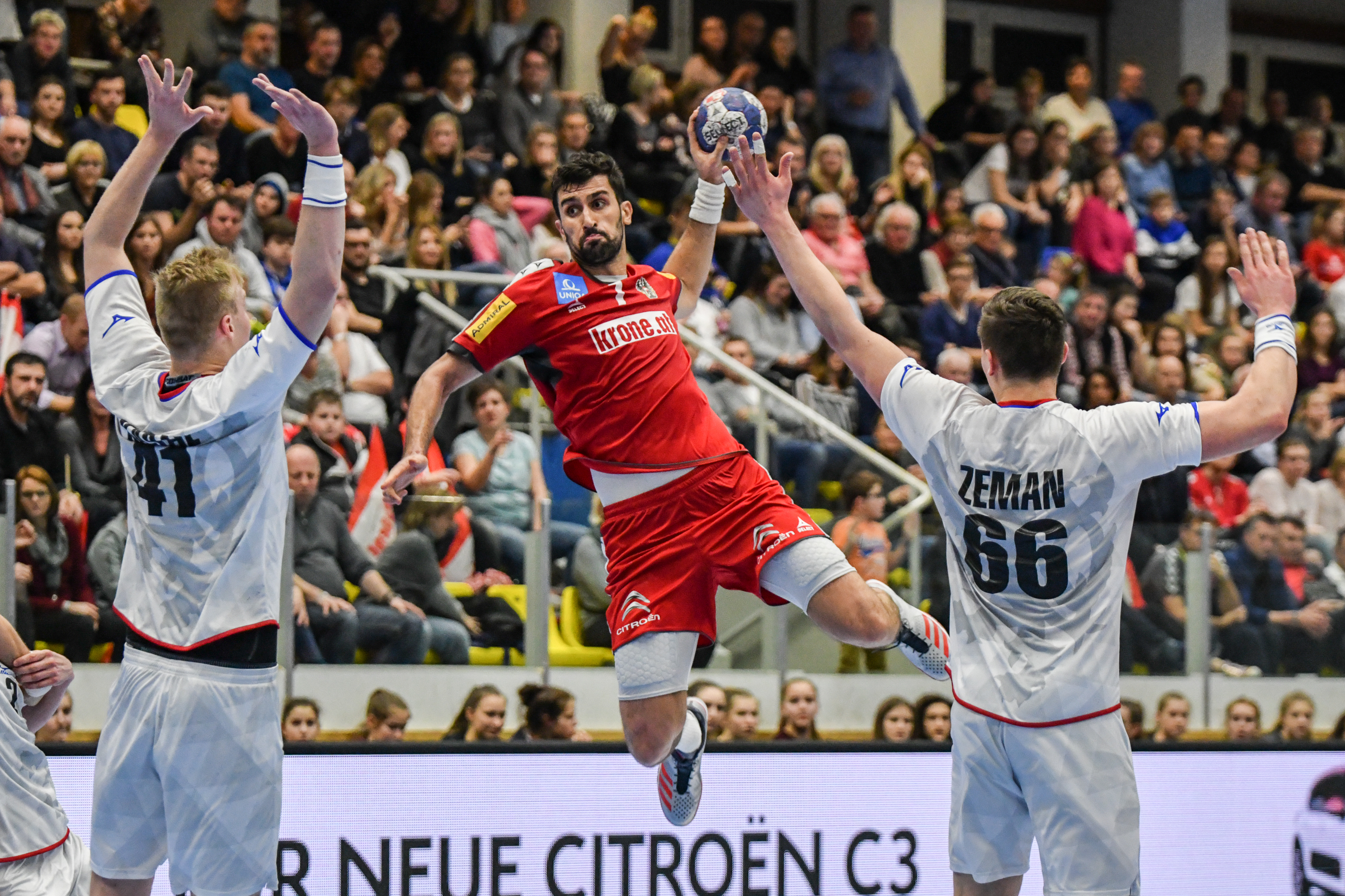 Men's handball Austria Czechia 2018-01-05, picture shows Janko Bozovic (AUT)